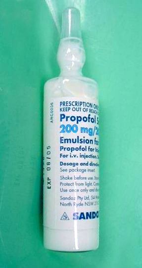 20ml ampule of propofol taken by Erich Schulz 2004